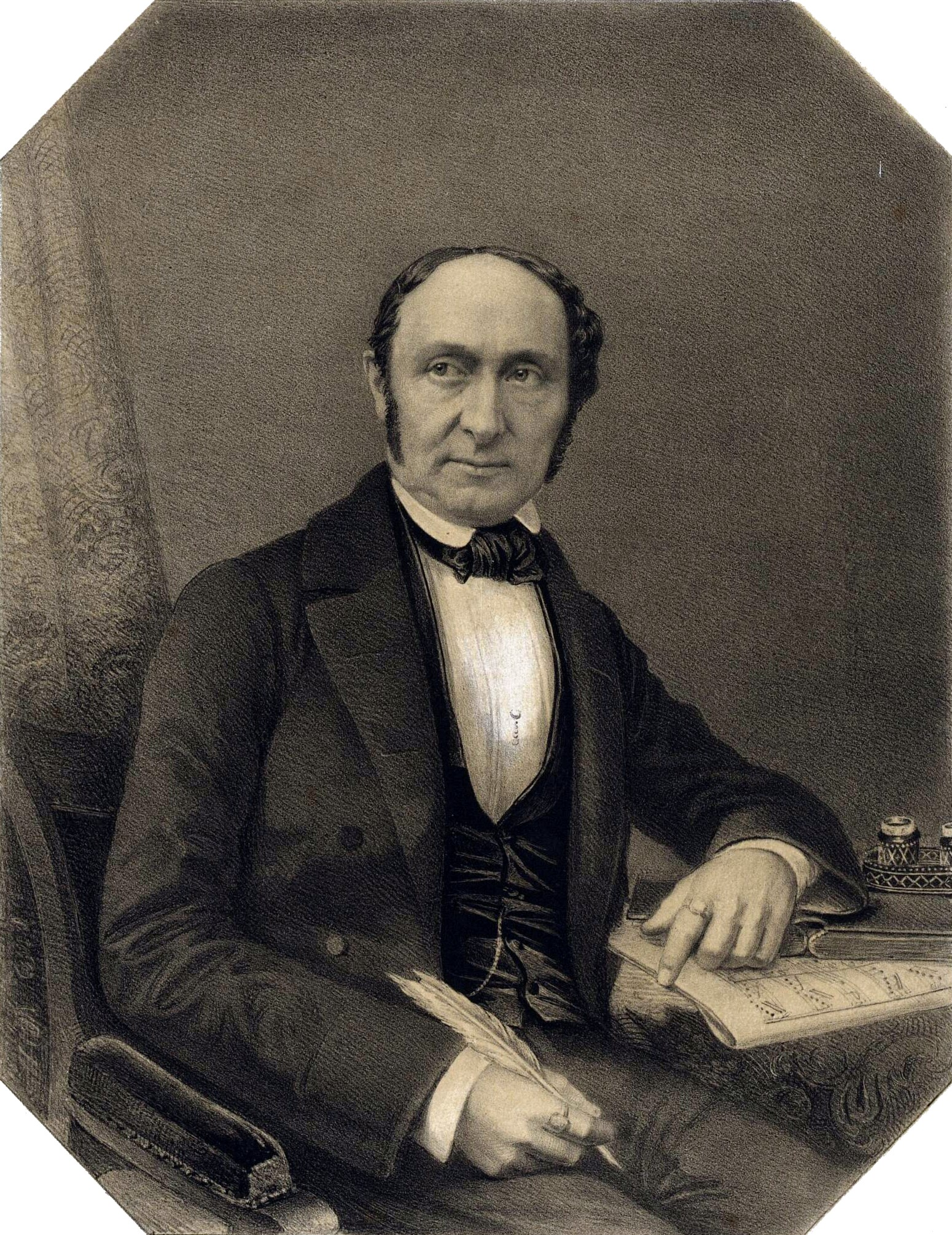 Depicted person: Ernst Julius Otto